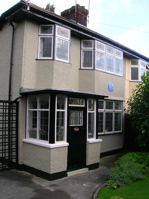 Place of Pop Pilgrimage 'Mendips', Menlove Avenue, Woolton, Liverpool. John Lennon's childhood home, now in the care of the National Trust.